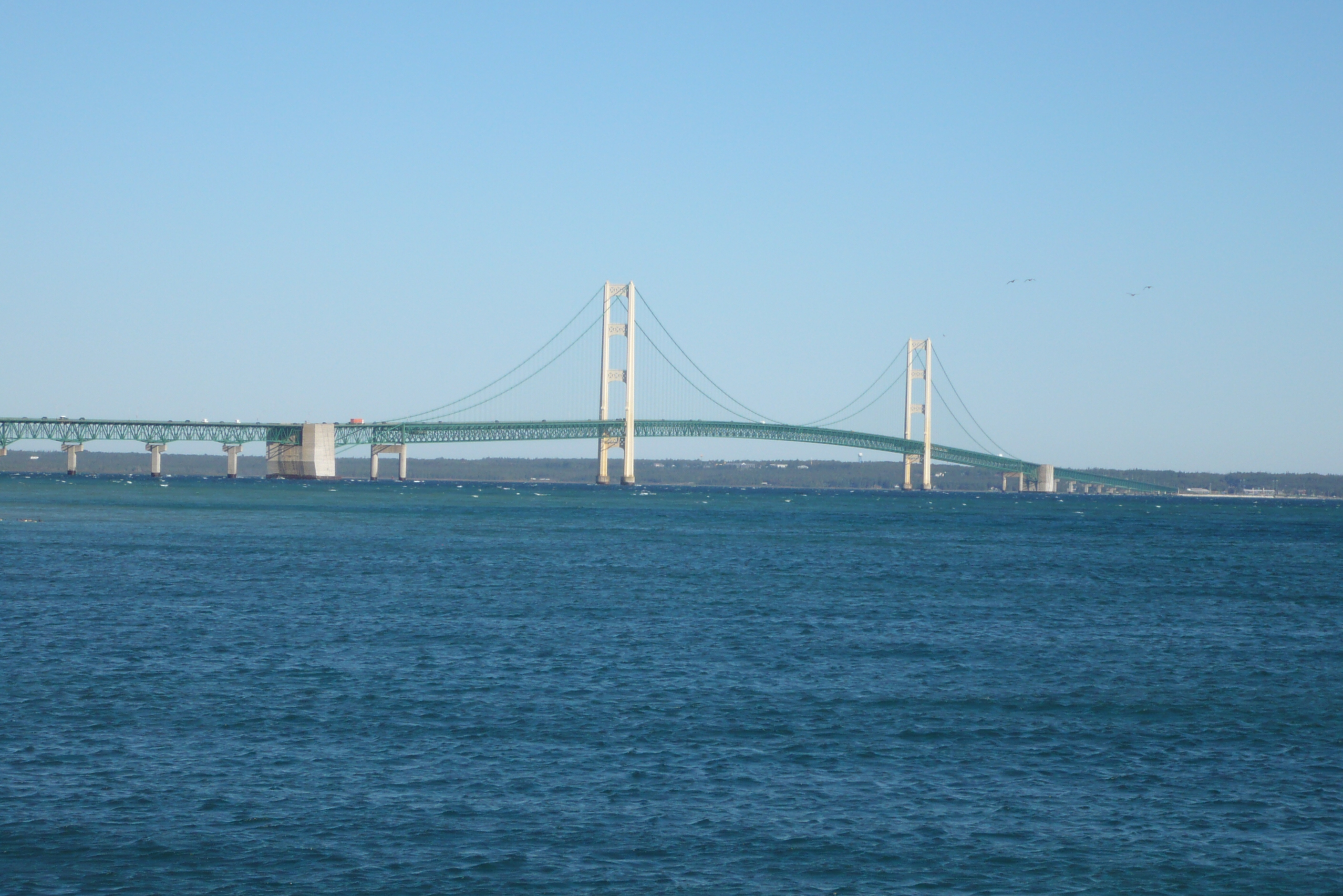 Mackinac Bridge